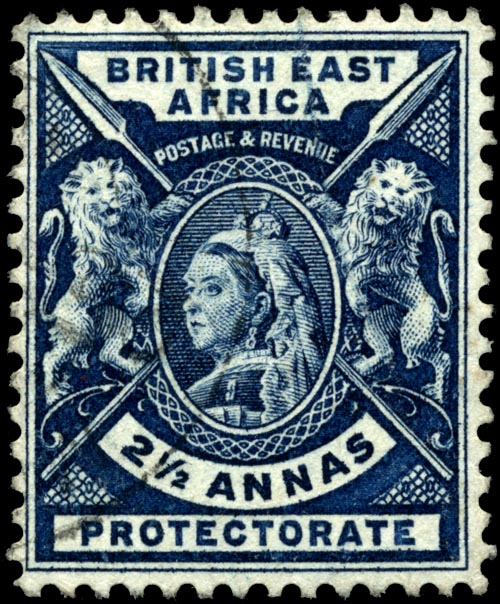 British East Africa 2 1/2-anna stamp of 1896, deep blue, SG N°68.